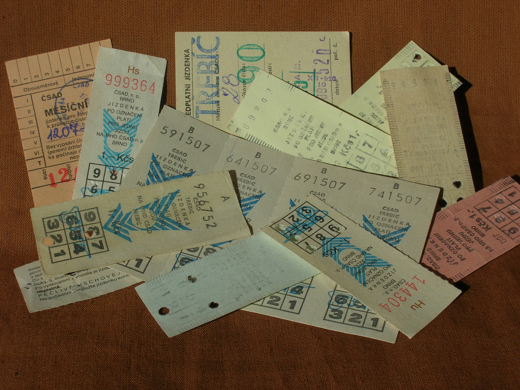 Old Třebíč public bus transport tickets. Four tickets to the top right were produced by German stationary ticket machine MERONA 2000.